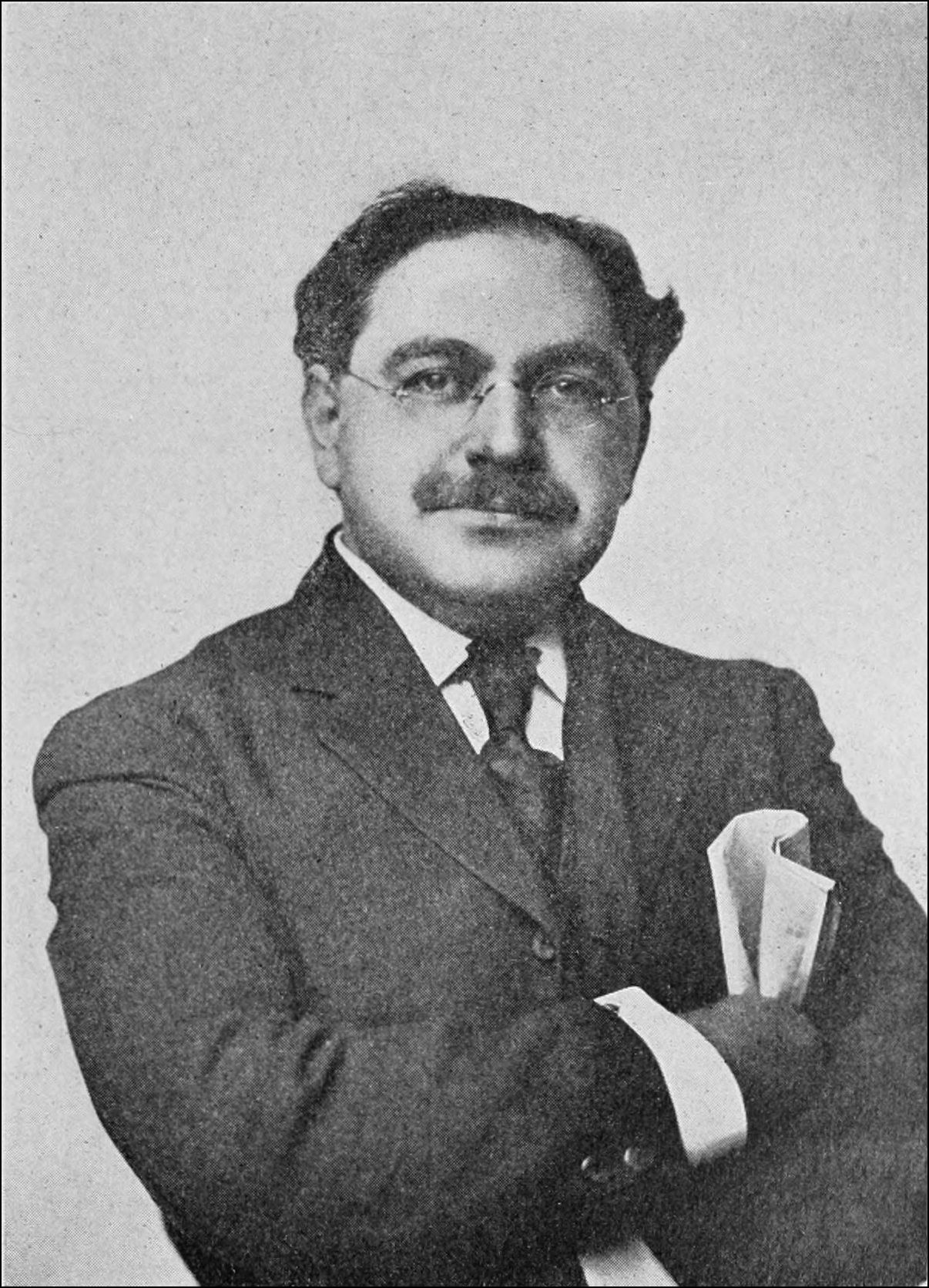 Dr. Frank Schlesinger. Vice-president for Mathematics and Astronomy of the American Association, director of the Allegheny Observatory.